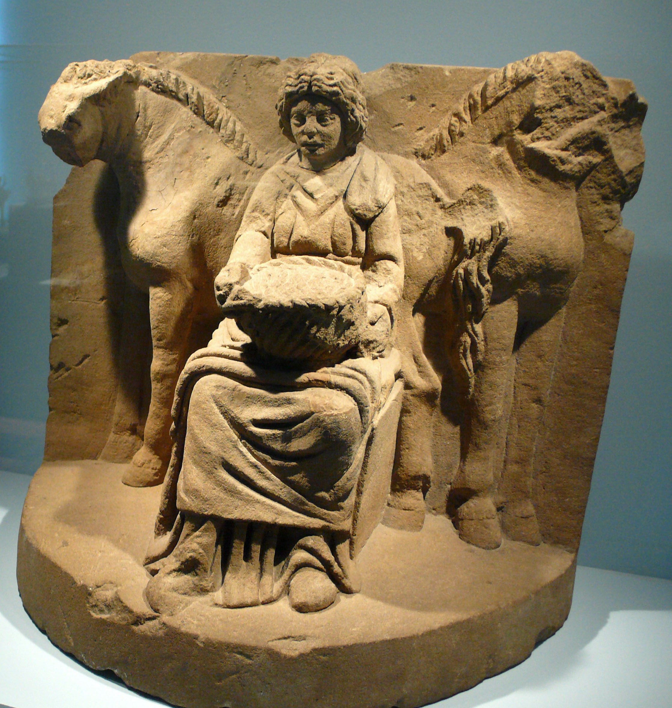 Köngen, Germany. About 200 AD The motif of the "Lady of the Animals" lives on this religious depiction. Flanked by two horses, Epona is shown sitting on a throne holding a fruit basket on her lap. The Celtic goddess was revered as the patroness for wagoners. She was also popular among the military. The images was mainly occurred in the provinces of Gaul and Germania. Kunst der Kelten, Historisches Museum Bern. Art of the Celts, Historic Museum of Bern.